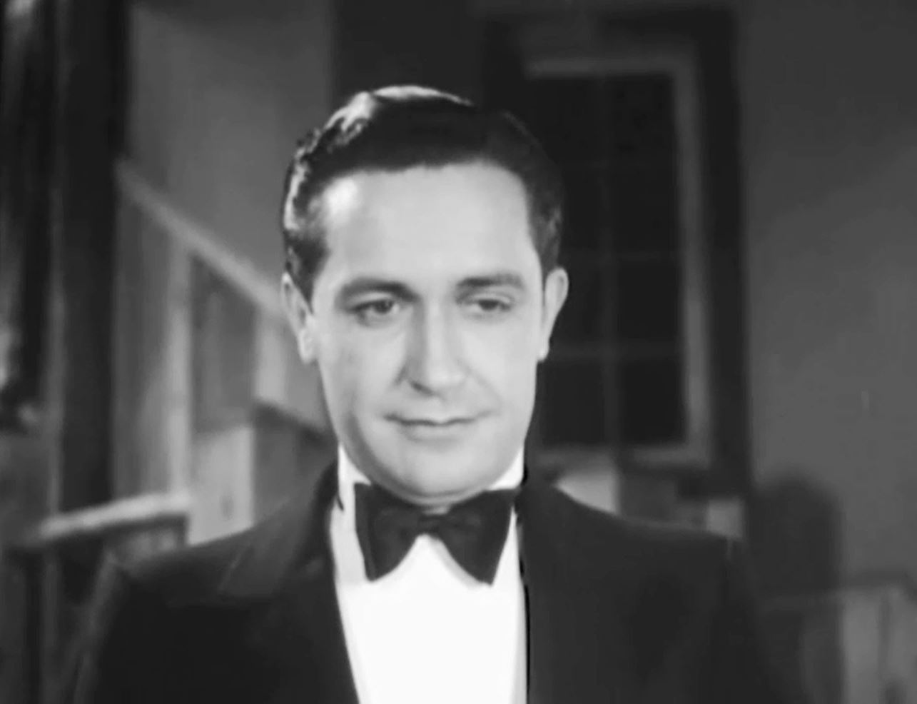 Low resolution screenshot of Paul Page as Ralph Bennett from the American public domain exploitation film The Road to Ruin (1934).